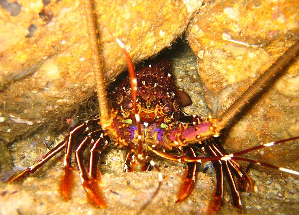 Double Spined Lobster (Panulirus penicillatus) in a rocky crevice. Fish Rock Cave, South West Rocks, NSW